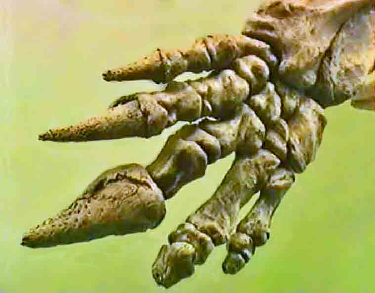 Phalanges of Lestodon armatus at the Harvard Museum of Natural History